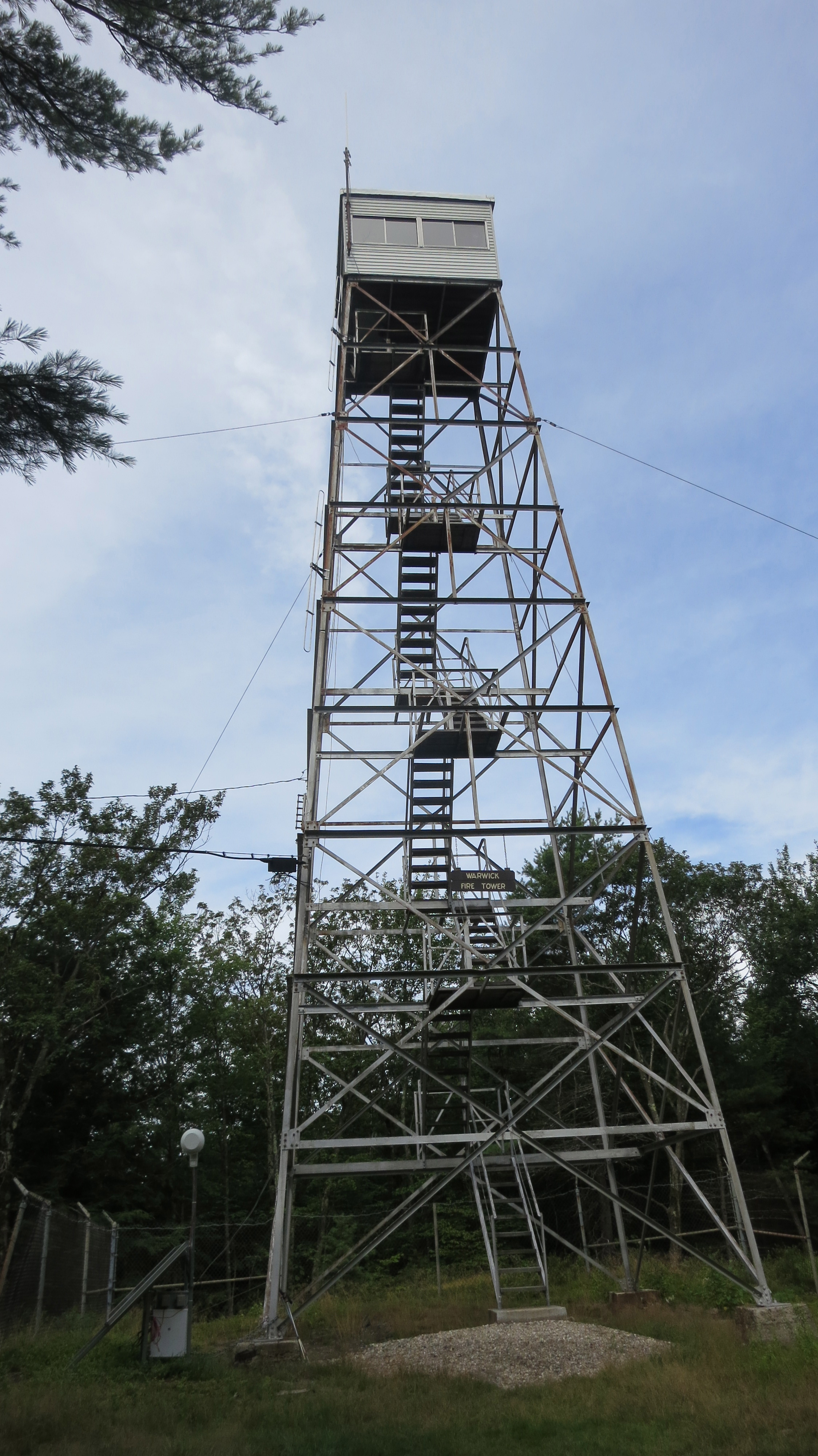 A working fire tower on the summit of Mount Grace